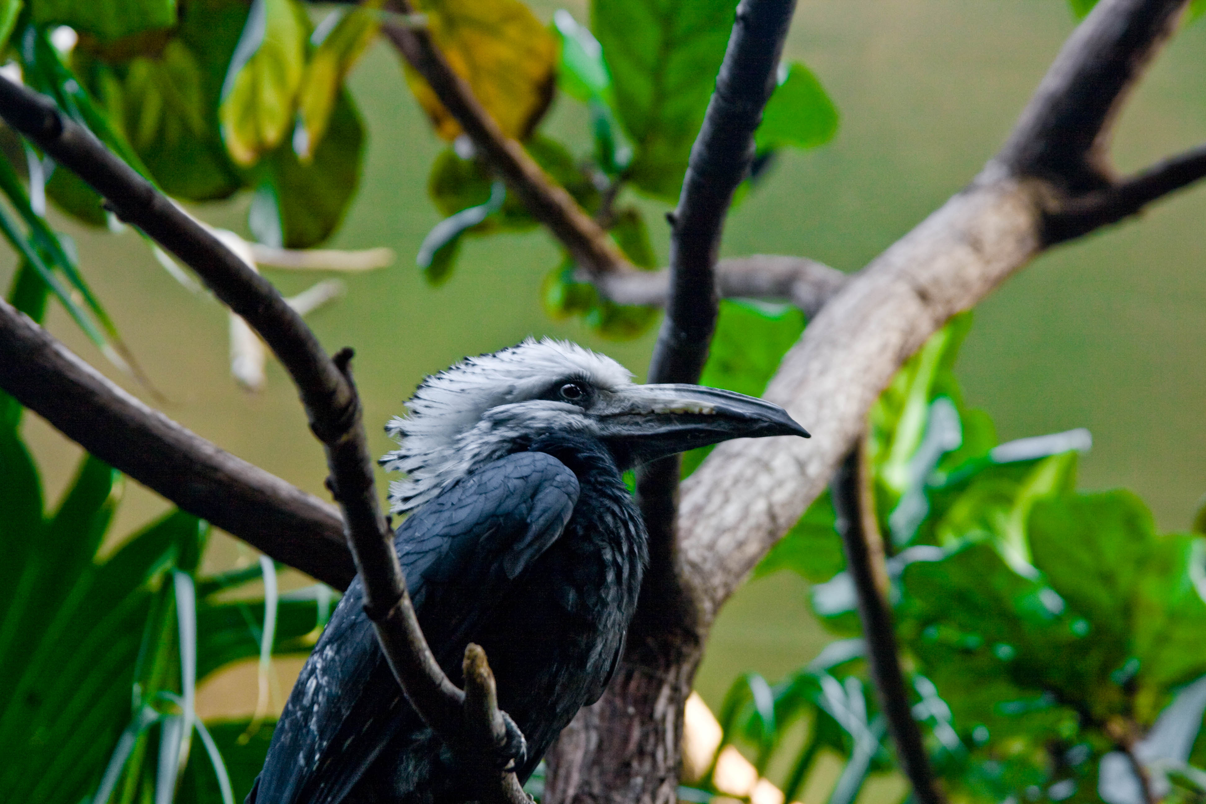 White-crested Hornbill (also known as the Long-tailed Hornbill) at Central Park Zoo, New York, USA.